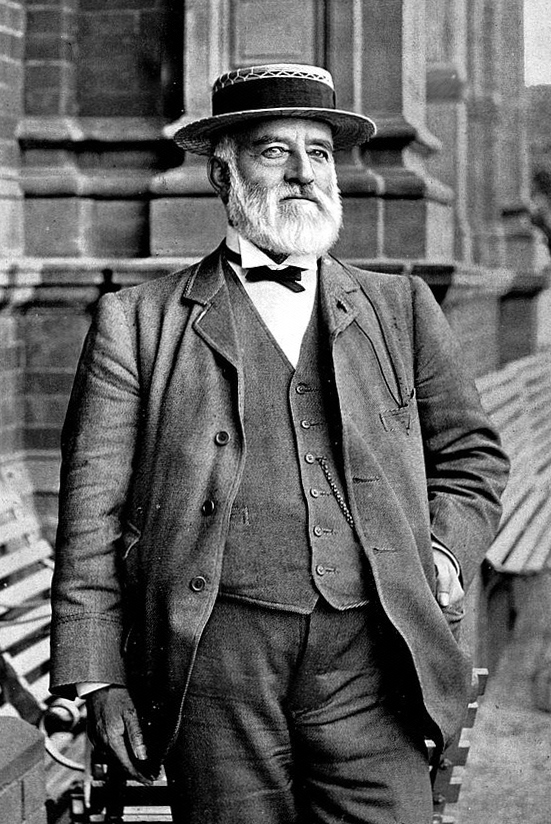 Sport, Cricket, Circa 1895, Mr,J, B, Wostinholm, Secretary of Yorkshire County Cricket Club